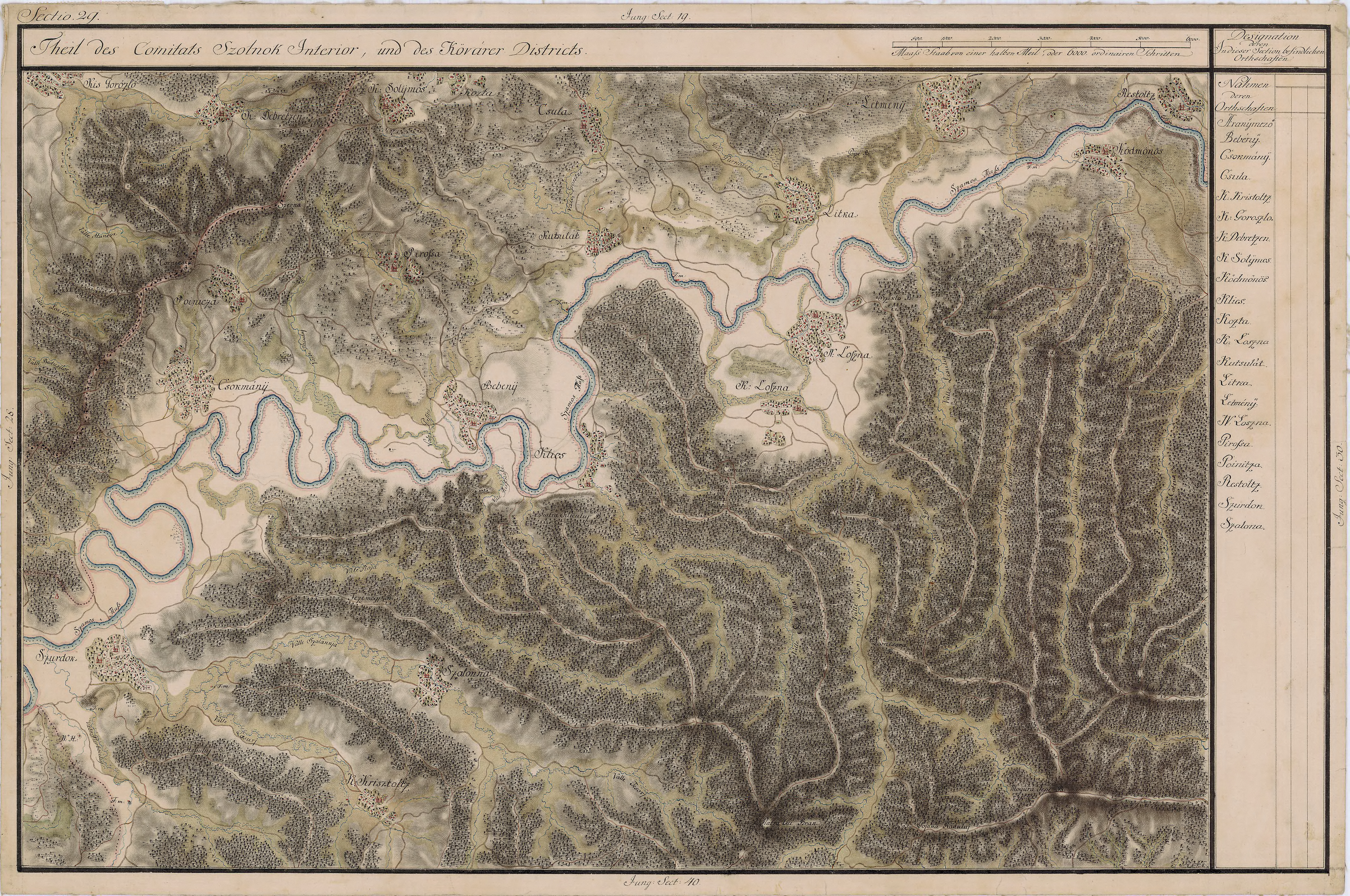 Grand Duchy of Transylvania, 1769-1773. Josephinische Landaufnahme pg.029